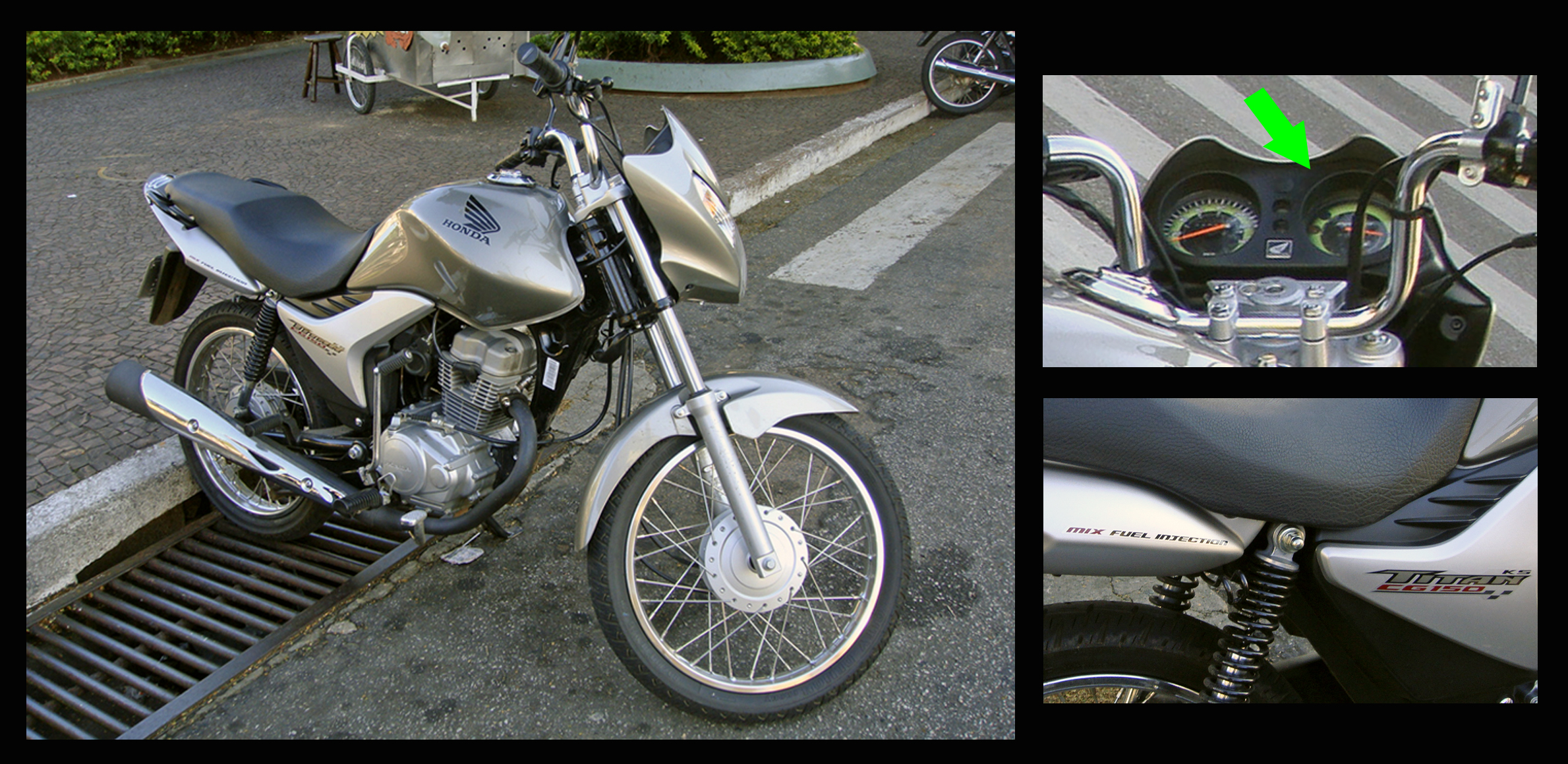 Honda Titan CG 150 Mix Fuel Injection (gasoline-ethanol). This model is the first flexible-fuel motorcycle sold in the world. Location Itu, Sao Paulo, Brazil. This version shows the Mix Fuel lettering that identifies the Honda flexible-fuel models, and also a zoom in of the front panel with an arrow pointing to the fuel gauge which has a warning light for the minimum blend required to avoid cold start problems at low temperatures.